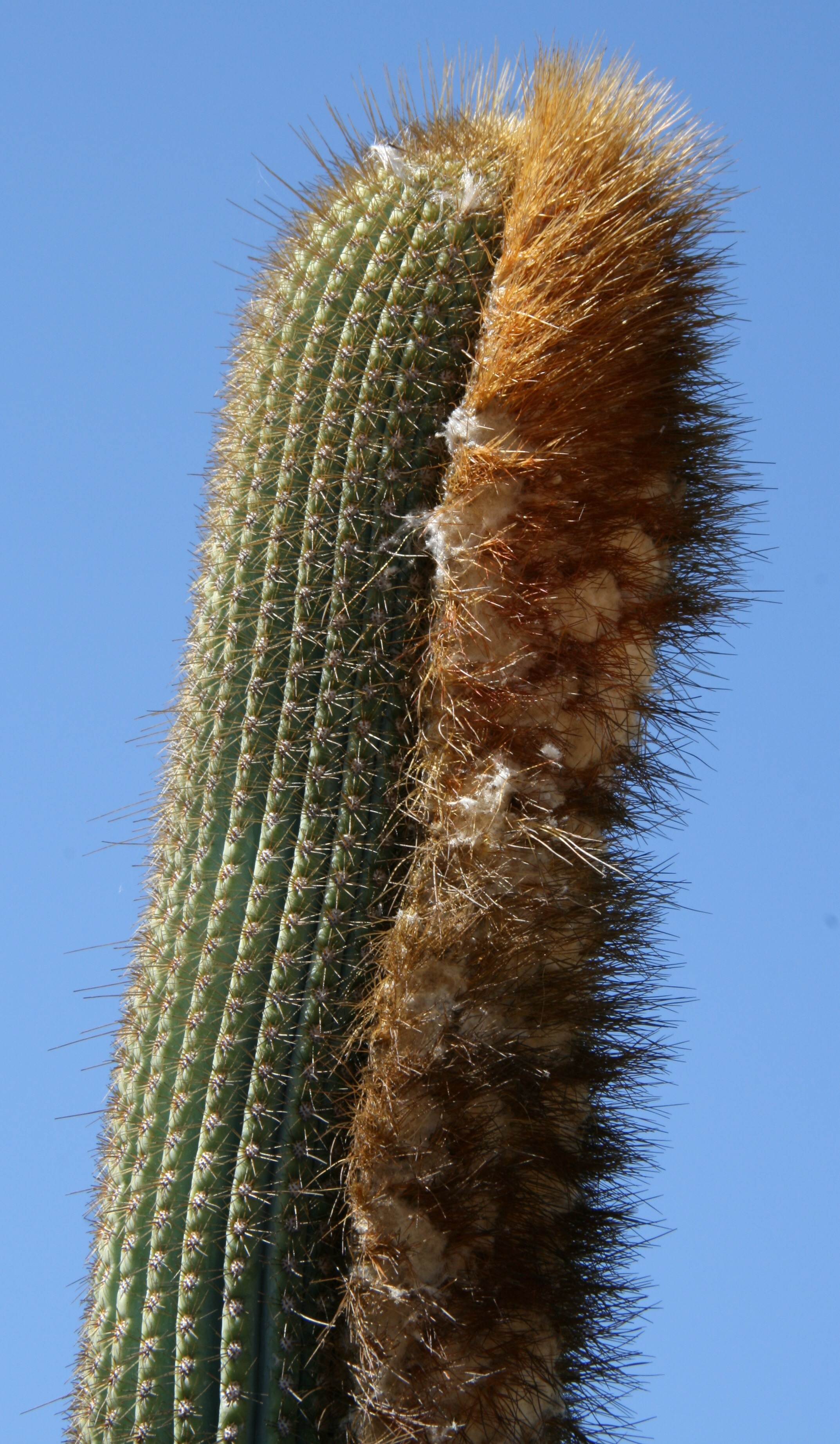 Adult plant with typical bristly cephalium, type habitat, W Minas Gerais, Brasil